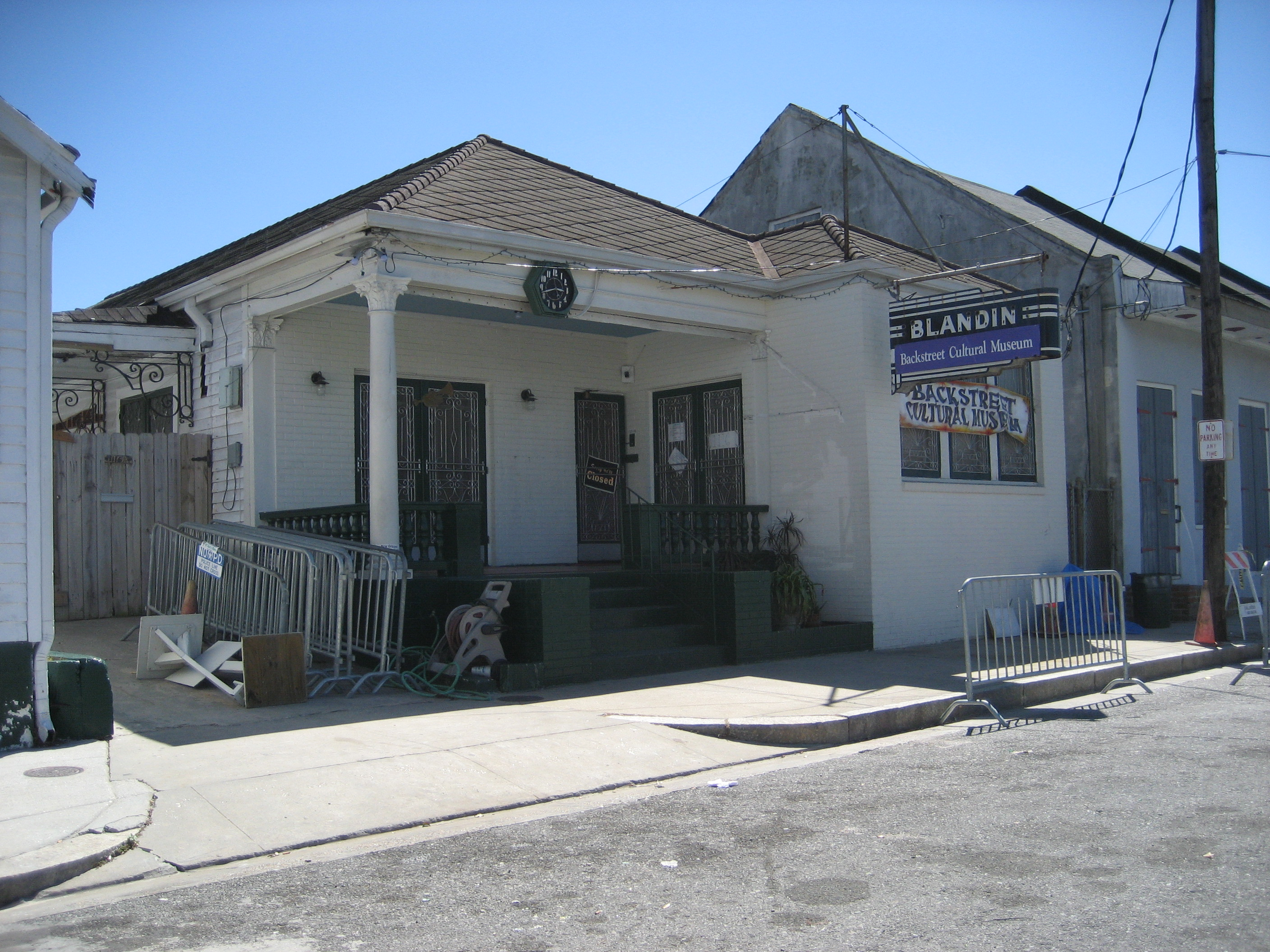 "Backstreet Cultural Museum" in the Faubourg Treme neighborhood, New Orleans. Neighborhood museum in former funeral home building.